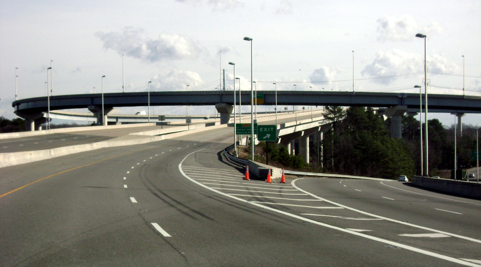 Beginning eastbound on Virginia State Route 895, in its interchange with Interstate 95 and Virginia State Route 150.